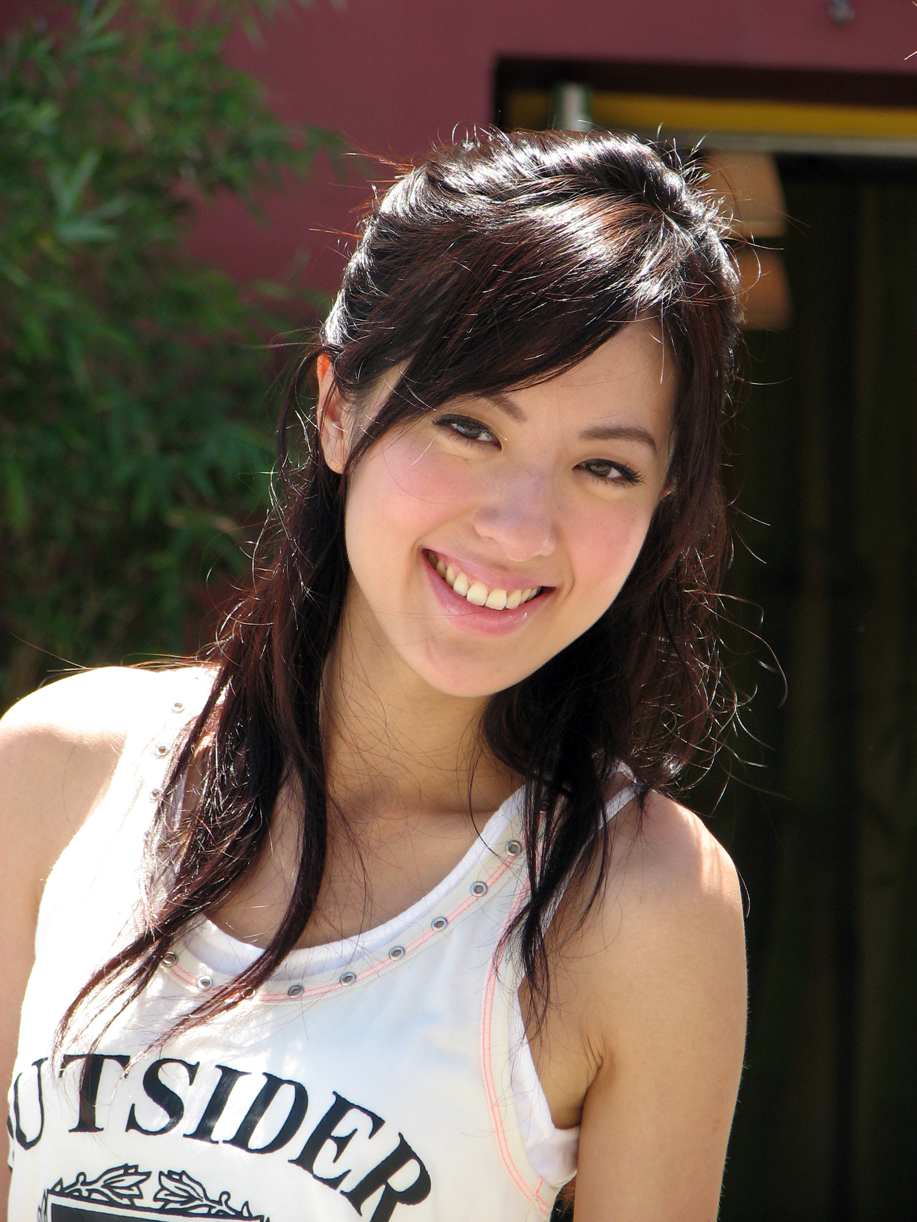 Natalie Tong shooting for a magazine at Ocean Park.